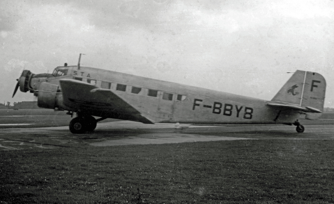 Amiot AAC.1 - a licence built version of the Junkers Ju.52/3m. Operated by Societe Trans Atlantique (STA). Manchester Airport in August 1948